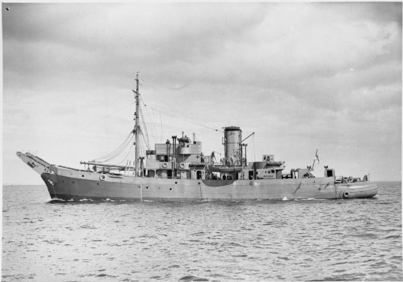 The Royal Navy during the Second World War HMS BARGLOW underway at sea.